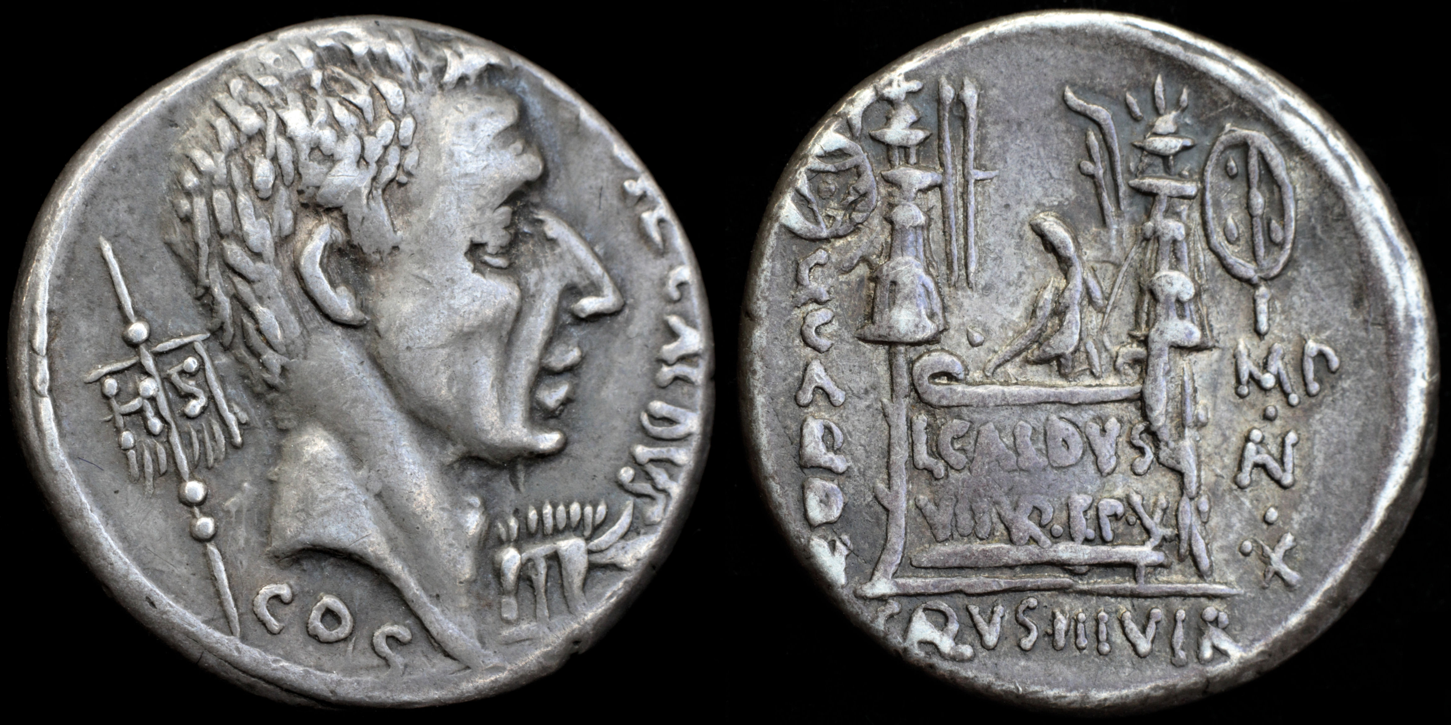 silver denarius struck in Rome 51 BC obverse head of Coelius Caldus (consul 91 BC) right; standard inscribed HIS (Hispania) behind, standard in the form of a boar (emblem of of Clunia, Hispania) in front C·COEL·CALDVS COS statue of god seated left between two trophies of arms, all on a high lectisternium with front inscribed: L·CALDVS / VII·(VIR)·EP(VL) (Lucius Caldus Septemvir Epulo) C/·/C/A/L/D/V/S on left I/MP/·/(AV)/·/X (Imperator, Augur, Decemvir) on right C(ALD)VS III VIR below references: Crawford 437/2a, Sydenham 894, RSC I Coelia 7, BMCRR II 3837, SRCV I 404